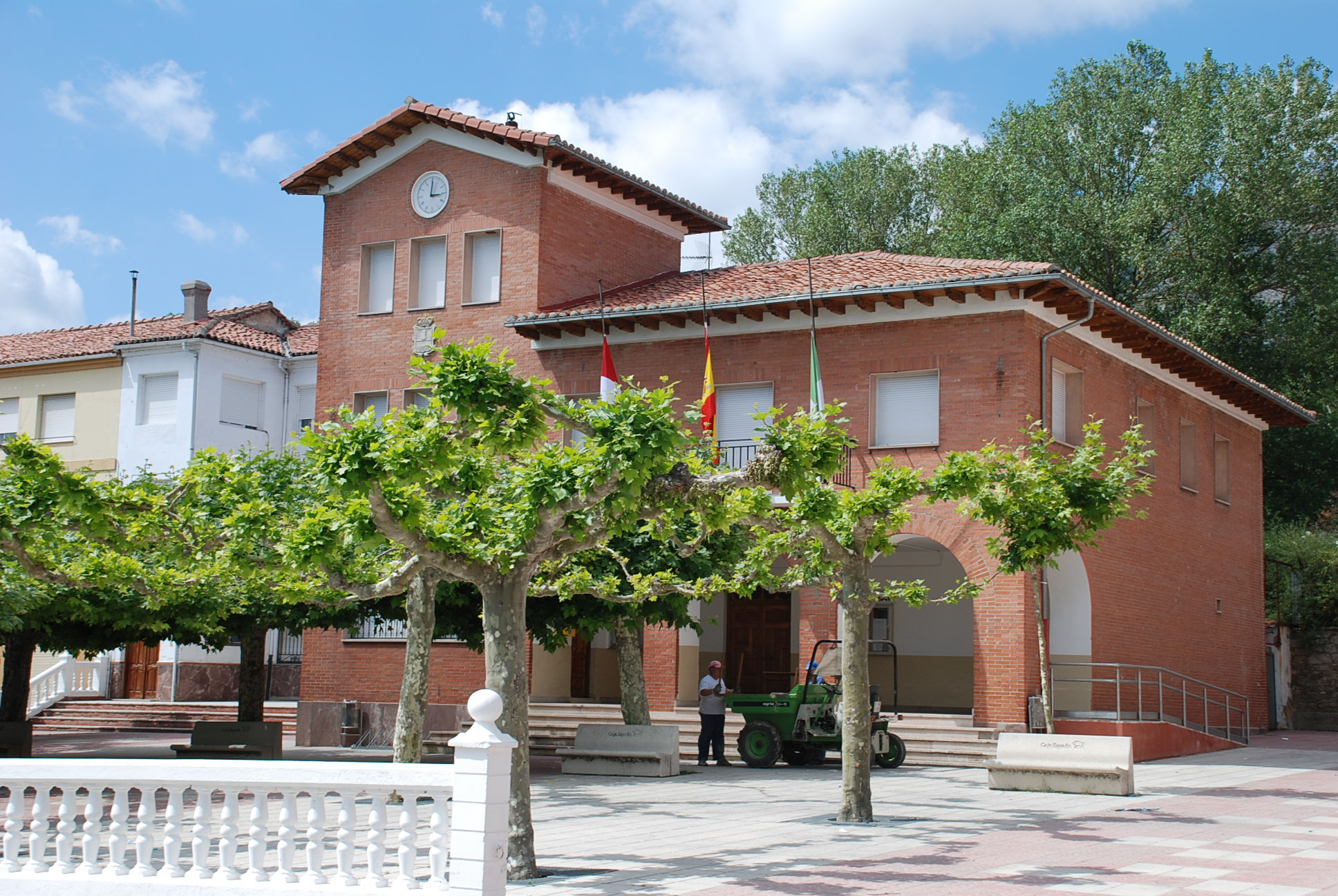 Town hall of Santibáñez de la Peña en las Heras de la Peña (Palencia, Castile and León).